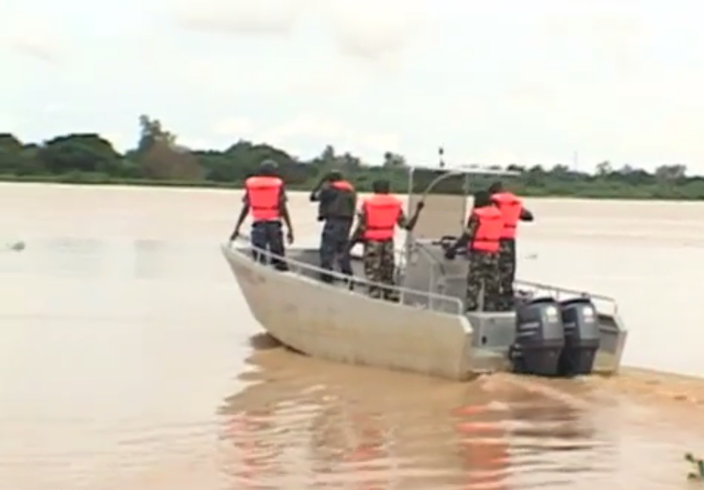 The fluvial brigade of the National Gendarmerie of Niger during a recent training exercise in 2013 on the Niger river.